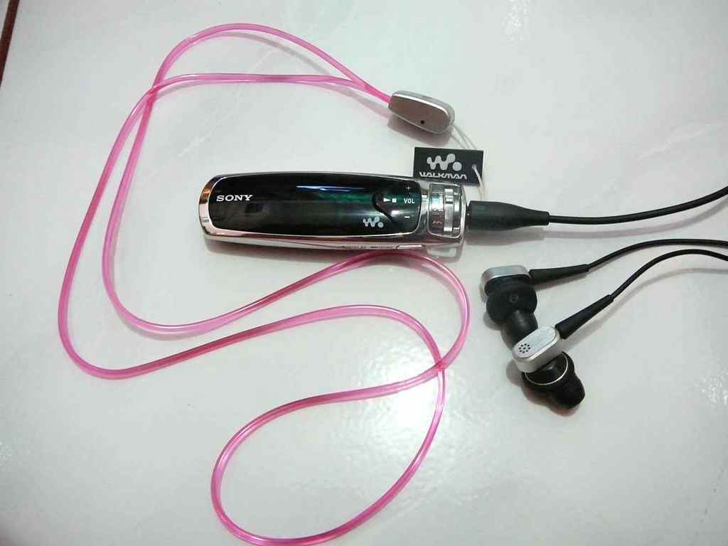 Sony Newtwork Walkman S700 Series (Showing NW-S705F); the first DAP with Noise Cancellation Technology.